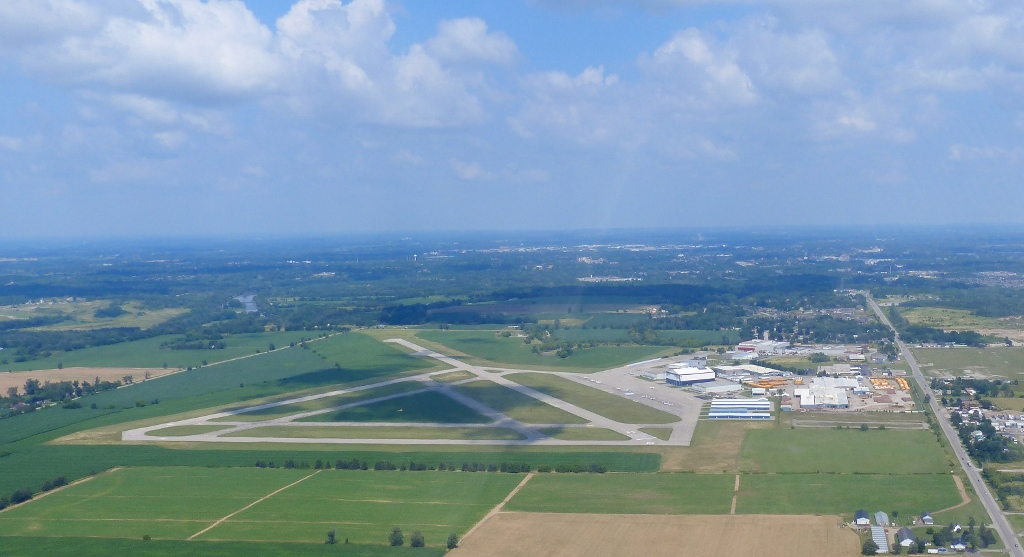 This is Brantford Airport from circuit height, say 330 metres above ground level, looking east heading 080 degrees true. The road at the right of the frame is Brant County Highway 53 (Colborne Street West). The City of Brantford is located 2 kilometers east and south of the airfield. The Grand River can be seen close by the airfield to the northeast, at the left side of the frame. The original runway and apron configuration from November, 1940 is intact, with the exception of runway 05-23 which was lengthened to 1,535 meters after the war. The interior parallel runways are not maintained and should not be used. This photograph was taken in a Cessna 172 CF-BSL, owned by the Brantford Flying Club. Pilot-in-command Tristan Fisher.